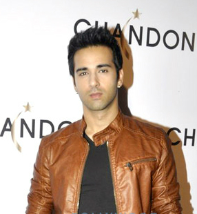 Pulkit Samrat at an event, April 2014.